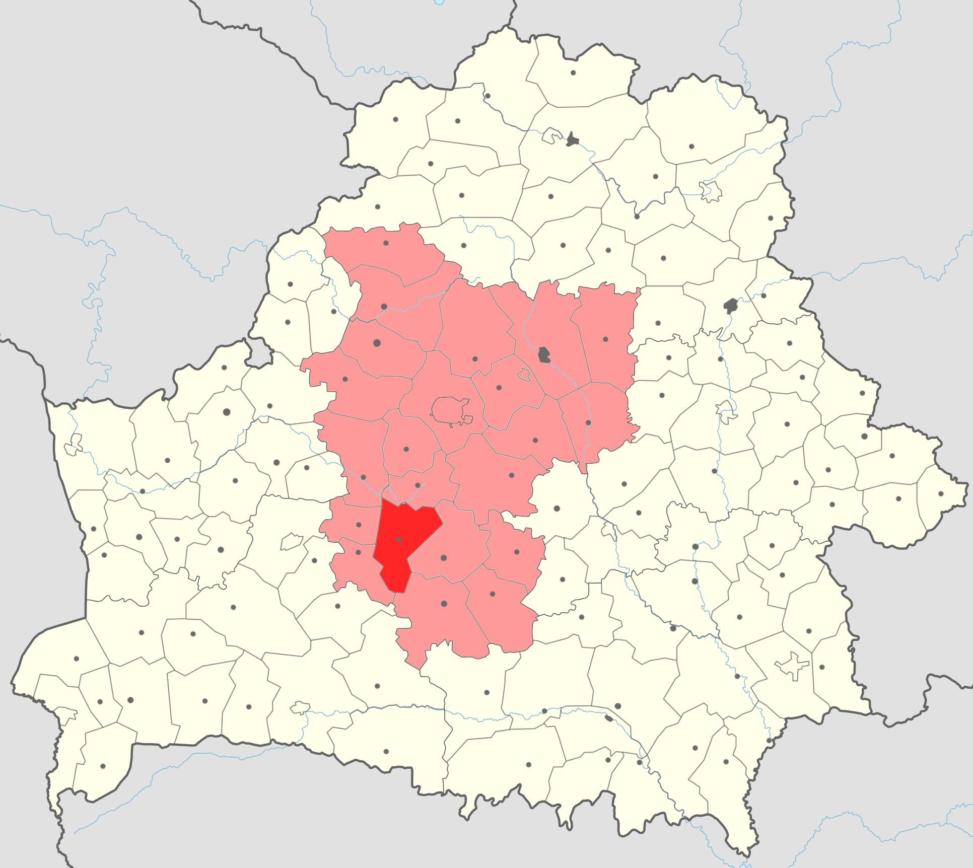 Map of Kapyl' (Kopyl') rayon (in red) with Minsk voblast' (in light red) on the map of Belarus.